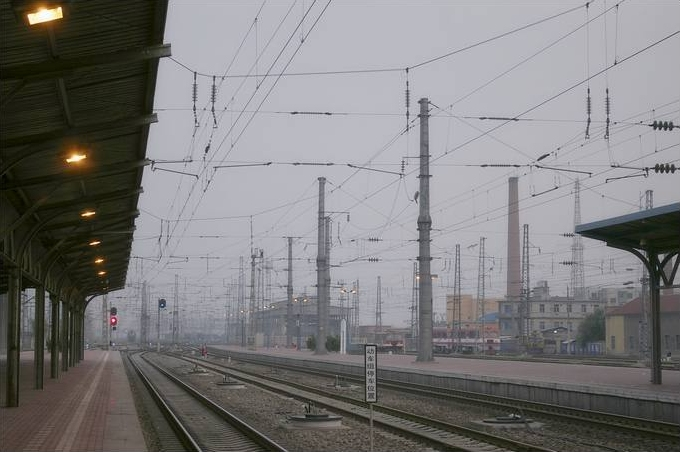 Siping Train Station， and Siping is a city in Jilin Province, China